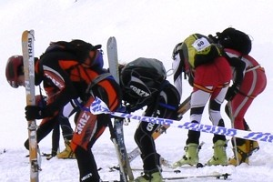 Pizzo Scalino Race: a skin's change.